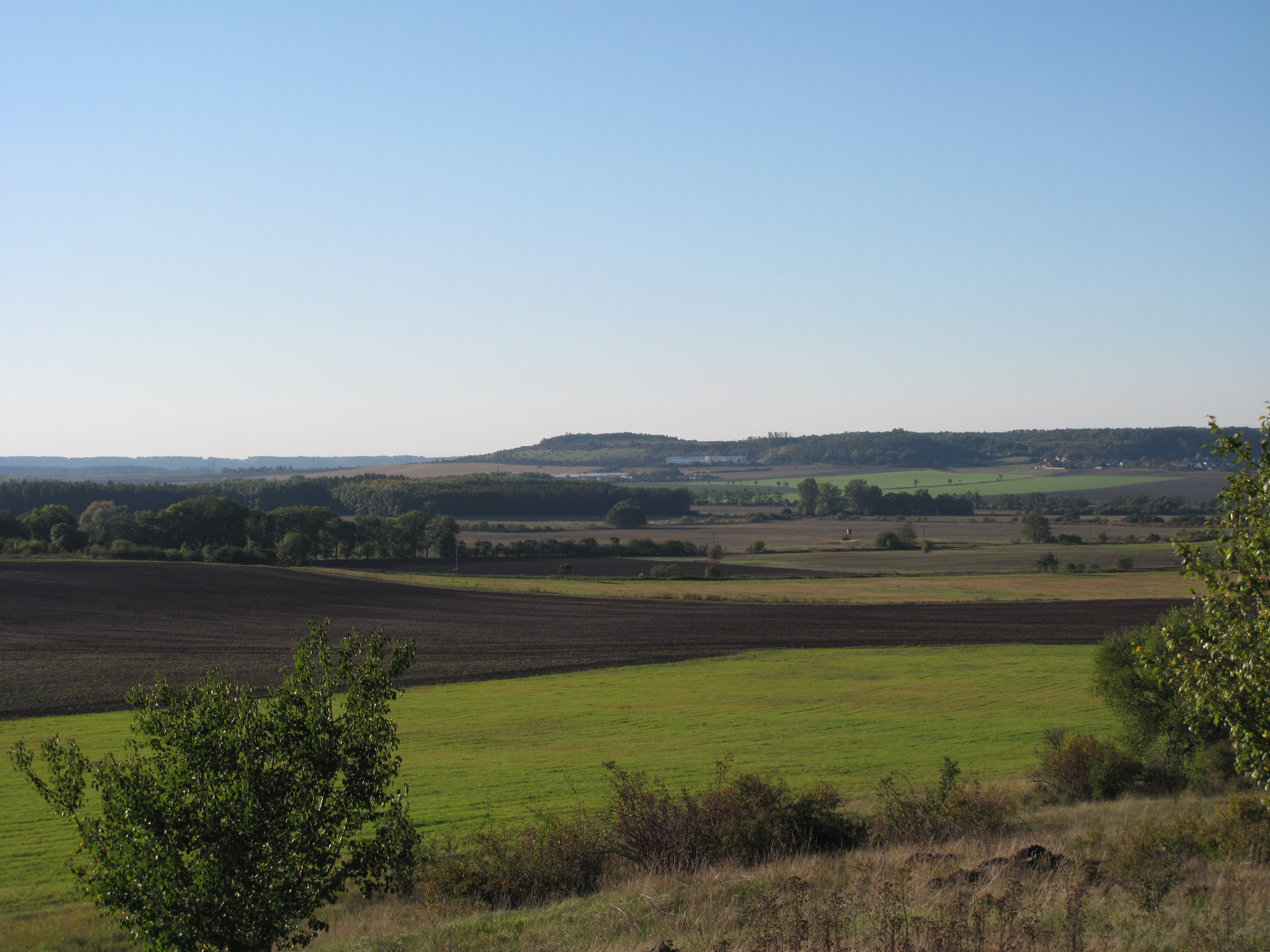 Countriside in the surroundings of Kopeč village, Mělník District, Czech Republic.